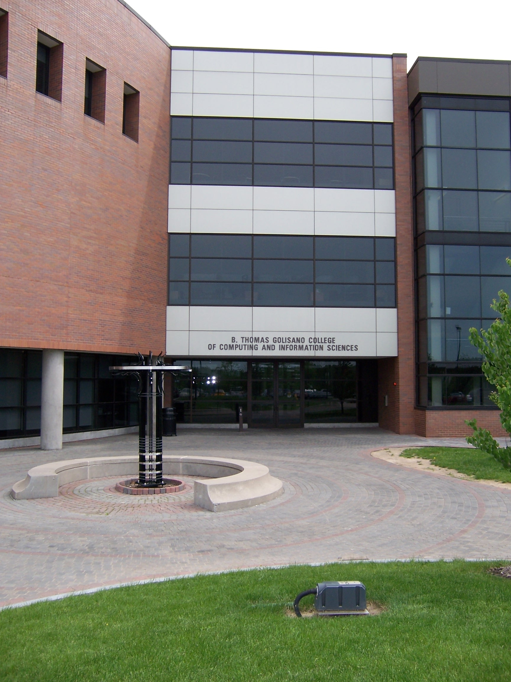 The Golisano College of Computing and Information Sciences on the RIT campus, building 70. B. Thomas Golisano, founder of Paychex Inc. and later owner of the Buffalo Sabres NHL team, donated US$14 million to RIT for the creation of his namesake college. Some of those funds went to construction of this building. The programs in the college (Software Engineering, Computer Science, and Information Technology) were moved here from other locations around the campus.